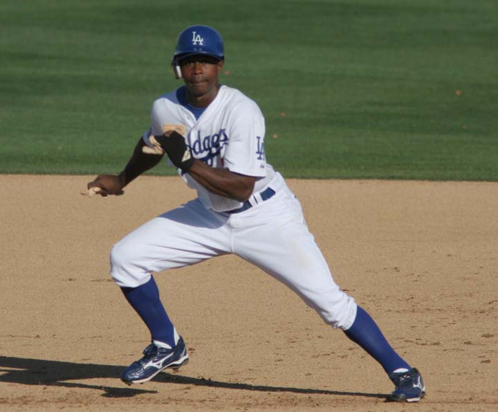 Description Dodgers Juan Pierre during spring training action in Arizona, 2008. DateMarch 2008SourceOwn workAuthorCraig Y. Fujii 01:47, 12 May 2008 . . Craigfnp . . 720×595 (77 KB) Dodgers Juan Pierre during spring training action in Arizona, 2008.